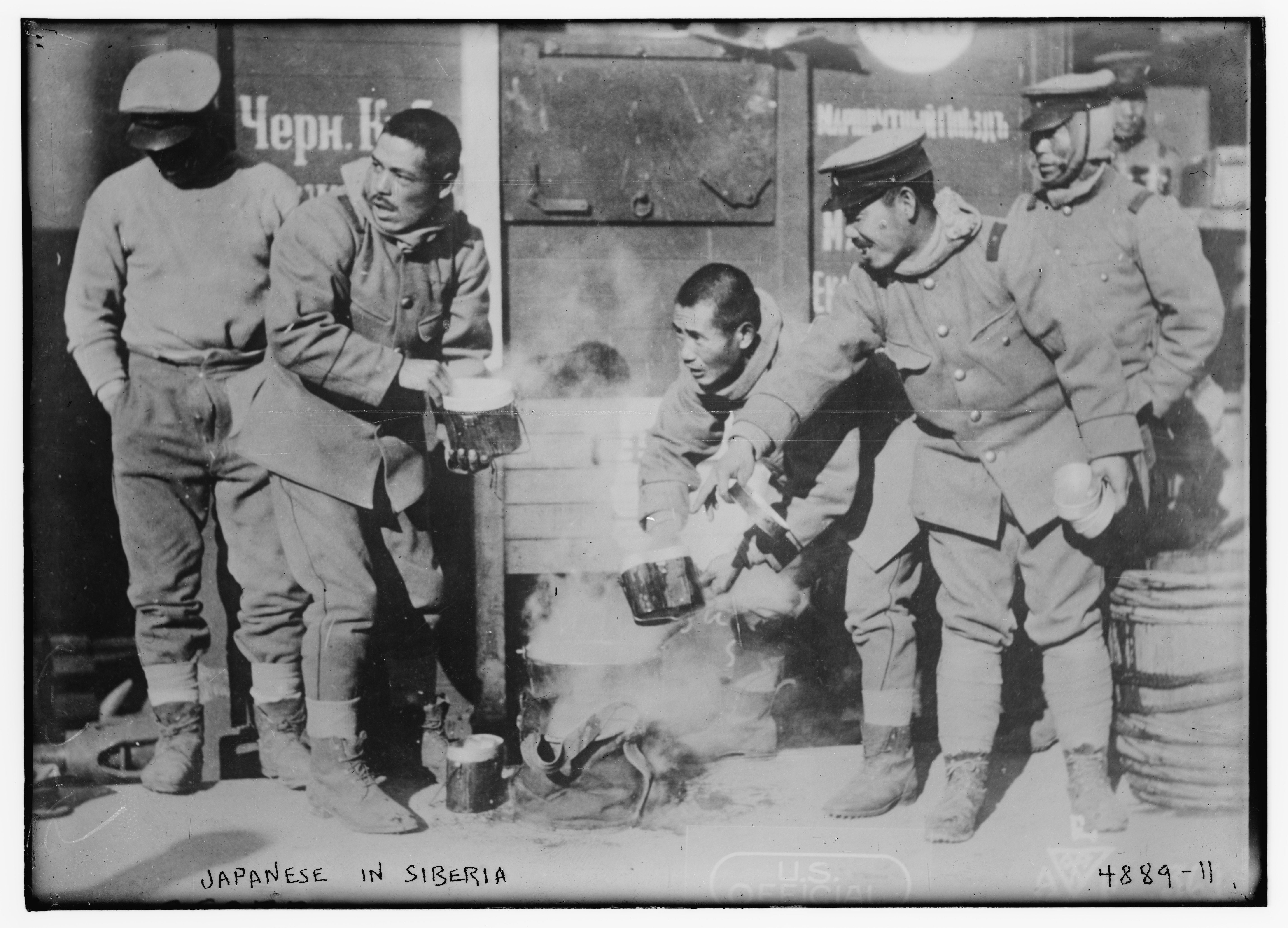 Title: Japanese in Siberia Abstract/medium: 1 negative : glass ; 5 x 7 in. or smaller.